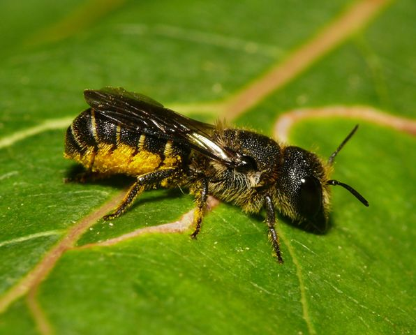 Heriades truncorum. Location: The Netherlands - Rhenen - Blauwe Kamer